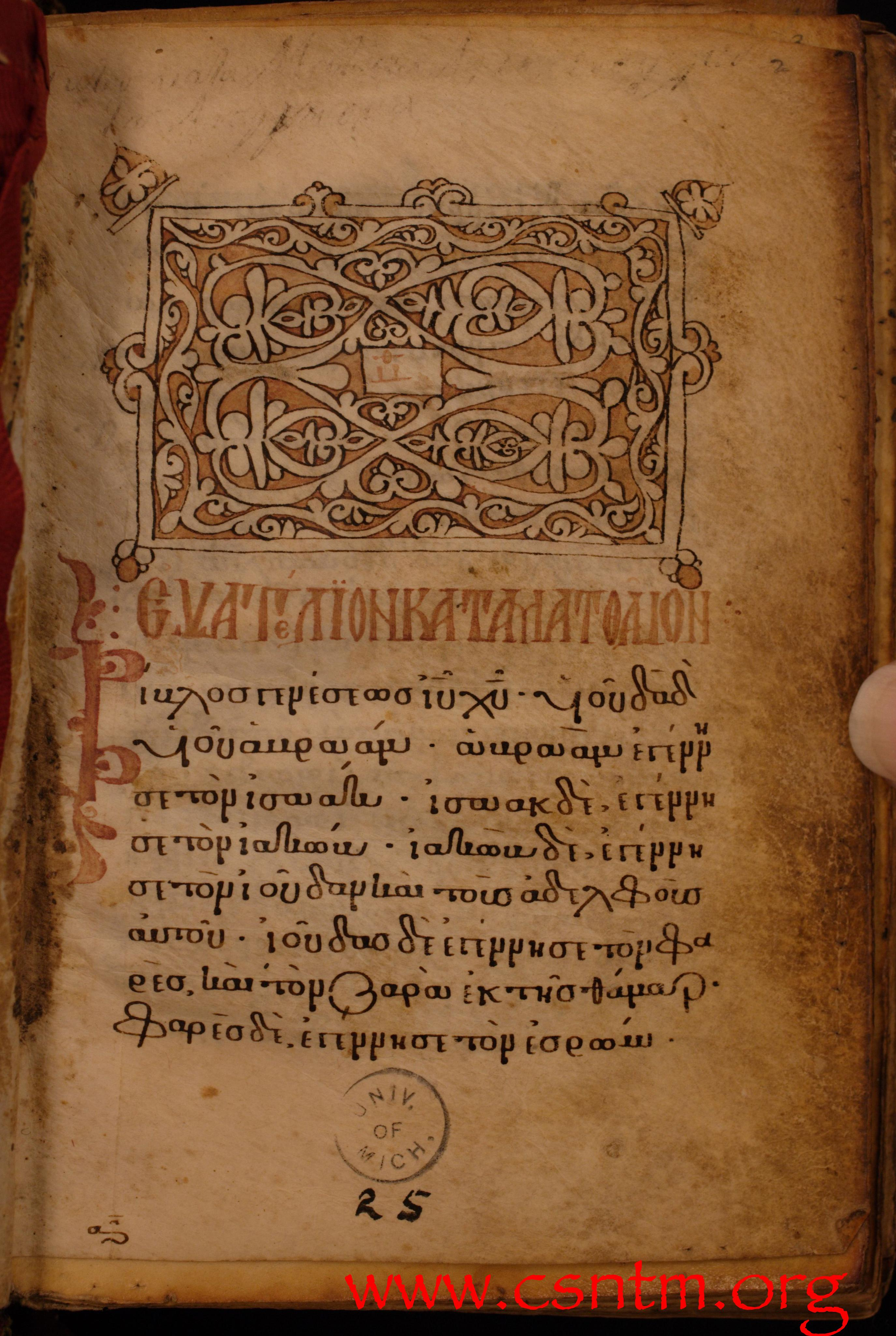 the first page of the Gospel of Matthew